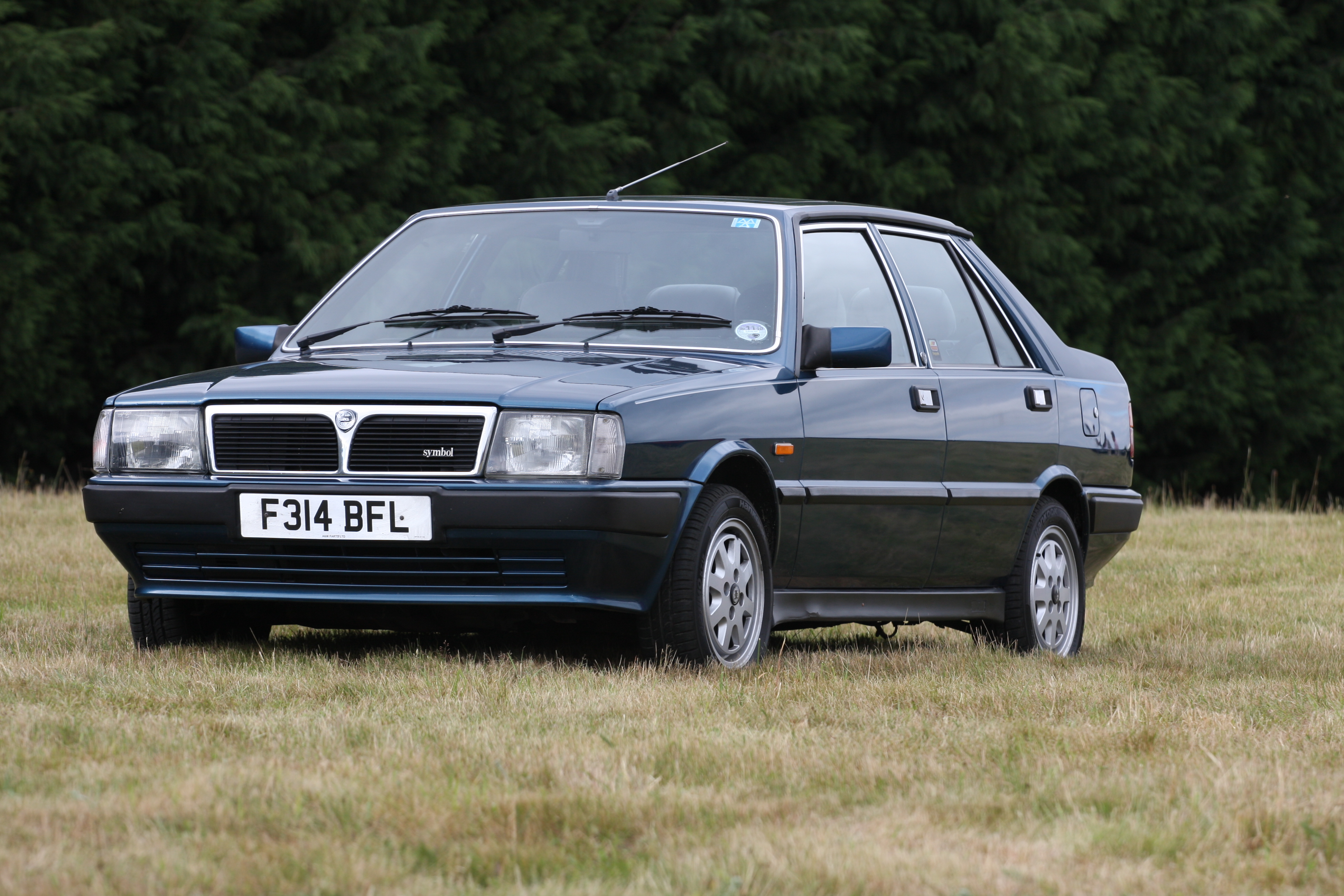 Lancia Motor Club AGM July 2010 Thame Oxford